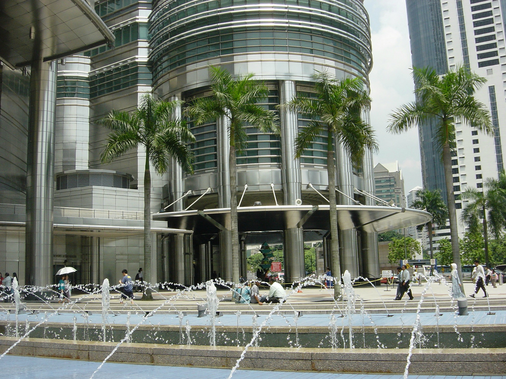 One of the Petronas towers entrances